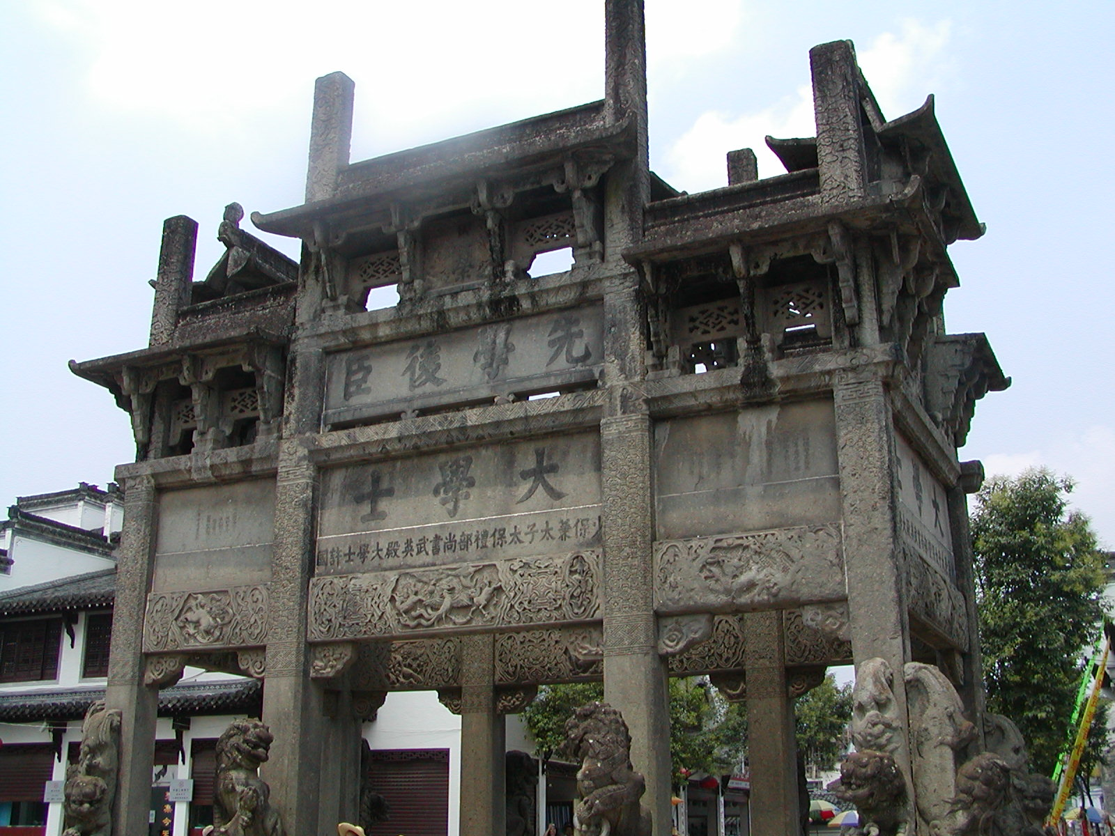 Xuguo Gate at She County, Anhui, China. Taken by Jie Bao, July 10, 2002